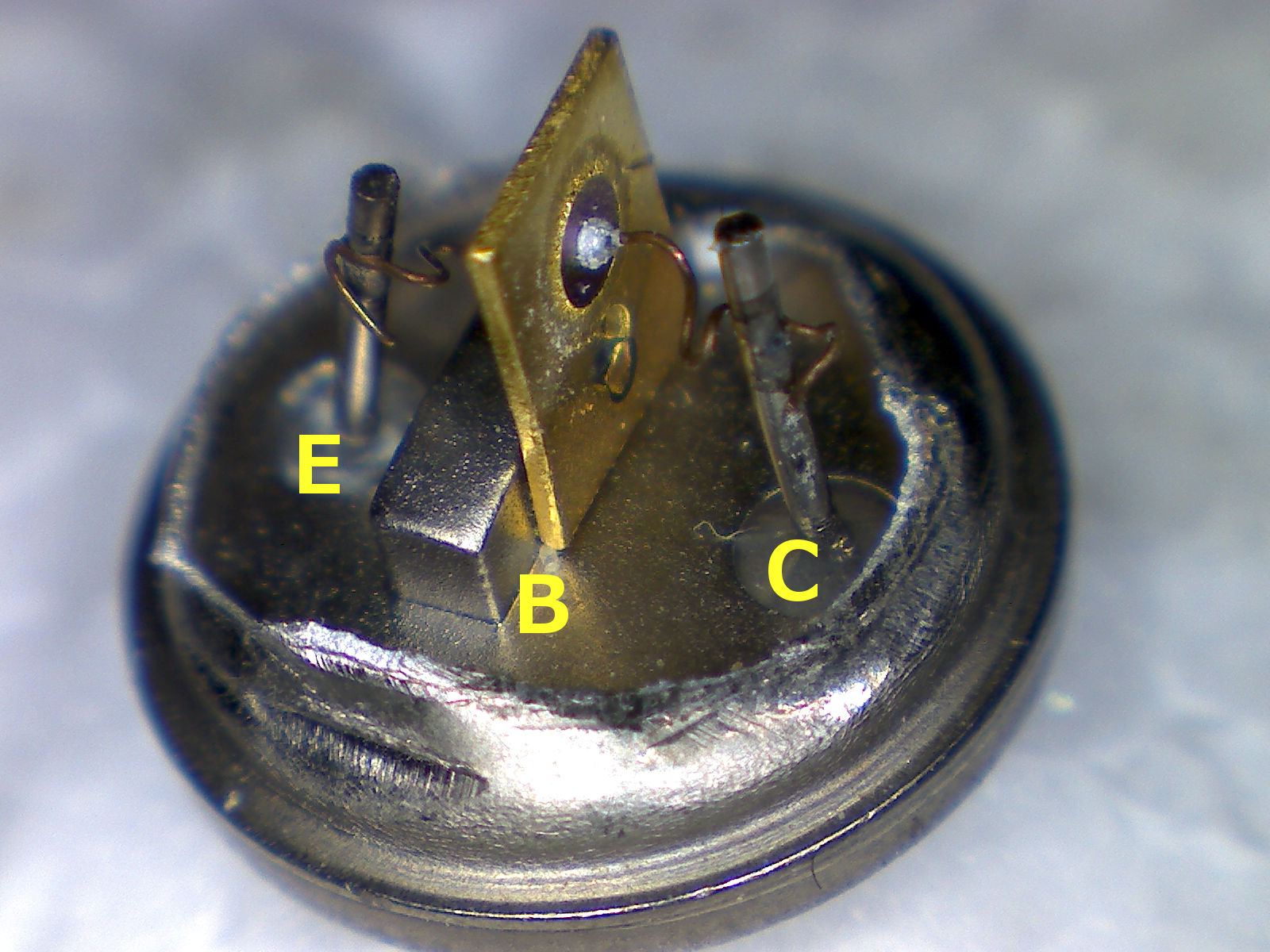 PNP Germanium Alloy Transistor from Computer card as used in the 1960's (sold as bulk trash in the beginning of the 70's). TO5 housing was removed. Manufacturer unknown. Note: Base connected to body!